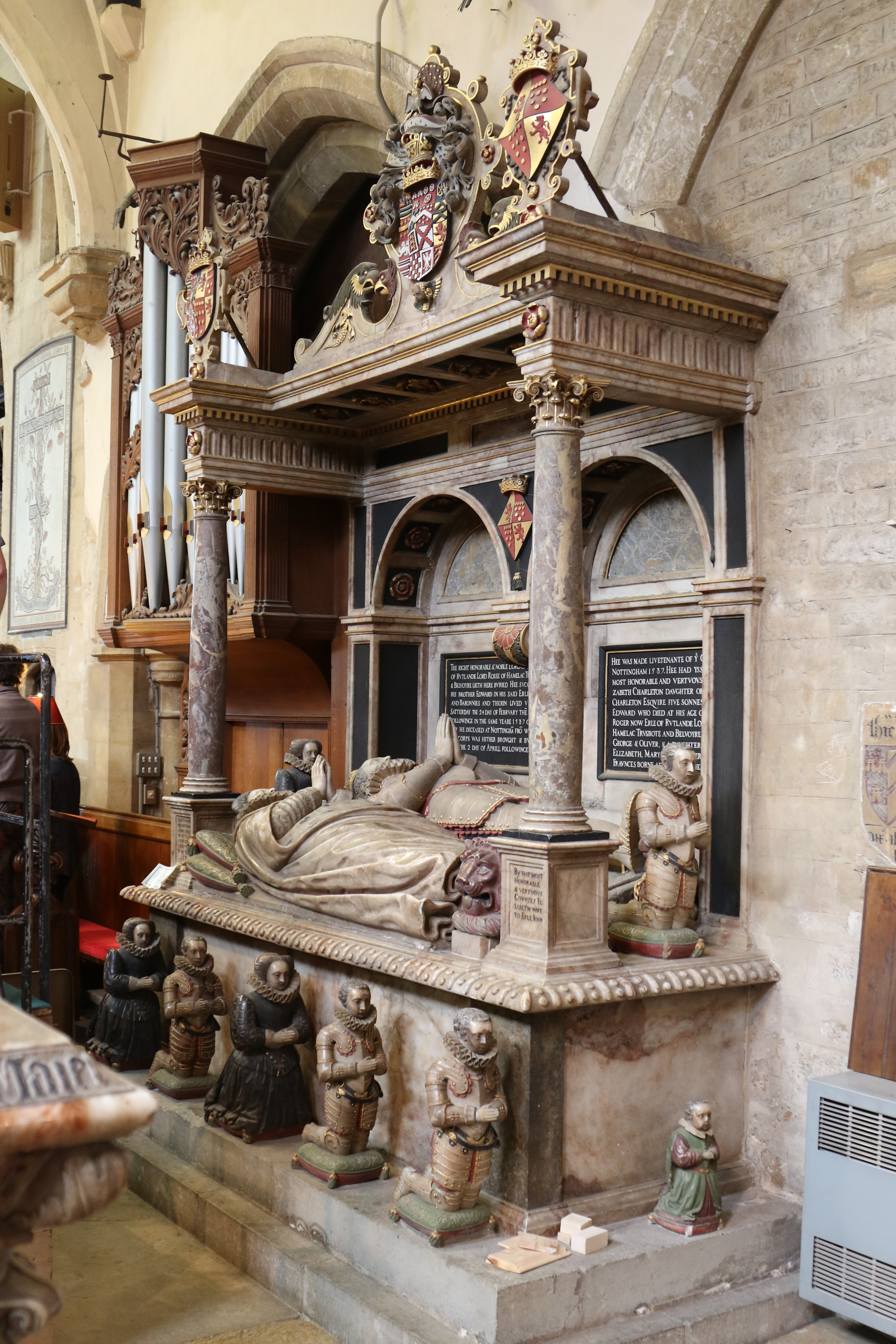 Monument to John Manners, 4th Earl of Rutland (c. 1552–1588), Bottesford Church, Leicestershire. He married Elizabeth Charlton, daughter of Francis Charlton of Apley Castle. Arms: Charlton quartering Zouche, for Alan de Charlton and his wife Ellen la Zouche, one of the daughters and co-heiresses of Alan la Zouche, 1st Baron la Zouche of Ashby (1267-1314).